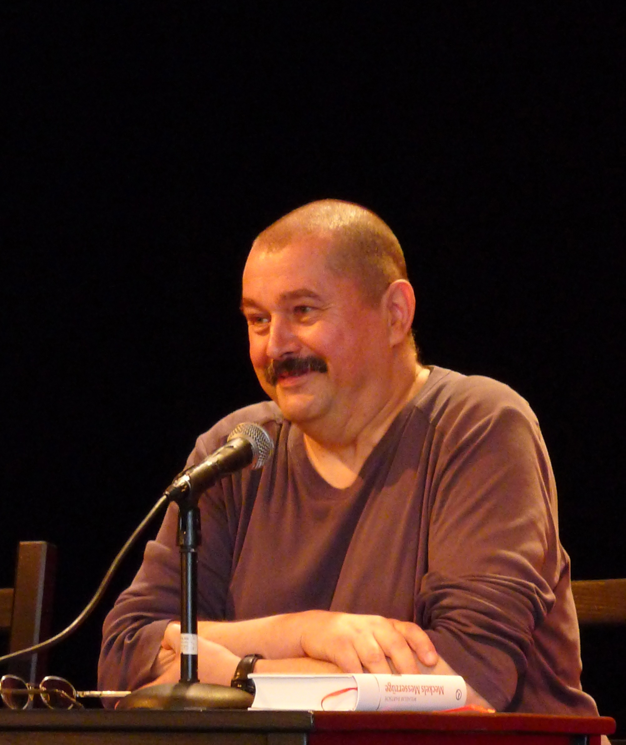 German writer Wilhelm Bartsch at the Erlangen writers festival 2011